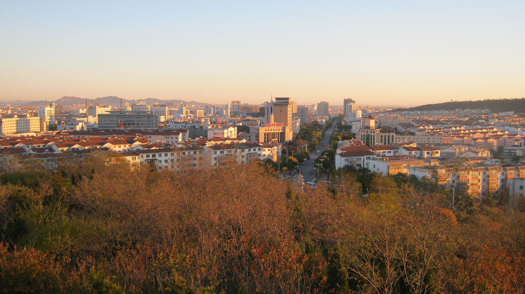 Huludao city in Autumn viewed from Longbeishan Park